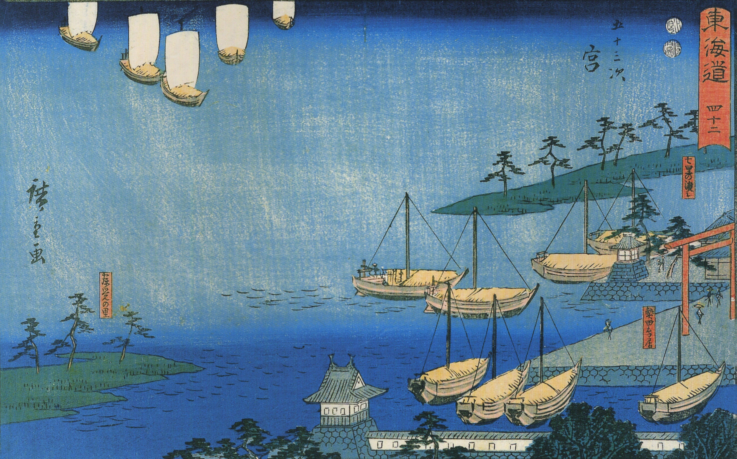 "No. 42 - Miya: Shichiri Crossing, Gate of the Atsuta Shrine, and Nezame Village (Miya, Shichiri no watashi, Atsuta no torii, Nezame no sato)", from the series The Tôkaidô Road - The Fifty-three Stations (Tôkaidô - Gojûsan tsugi), a.k.a. the "Reisho Tôkaidô", ukiyo-e prints by Hiroshige.